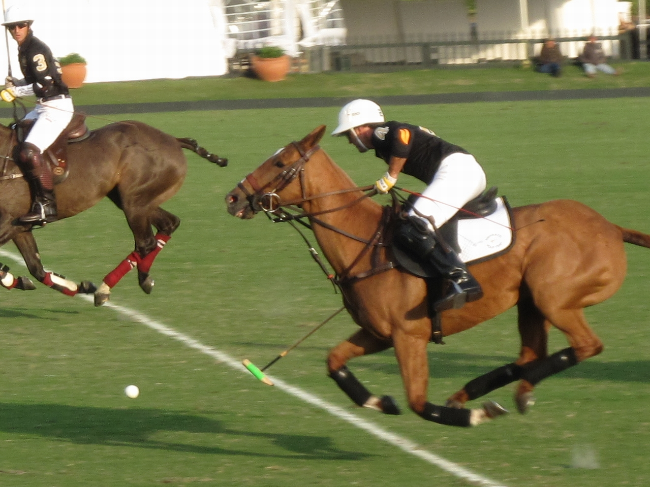 10 goal polo player Gonzalo Pieres takes the ball up the field for team Equus, during the Outback 40 Goal Challenge, at the International Polo Club, February 2013. Team mate Miguel Astrada covers.